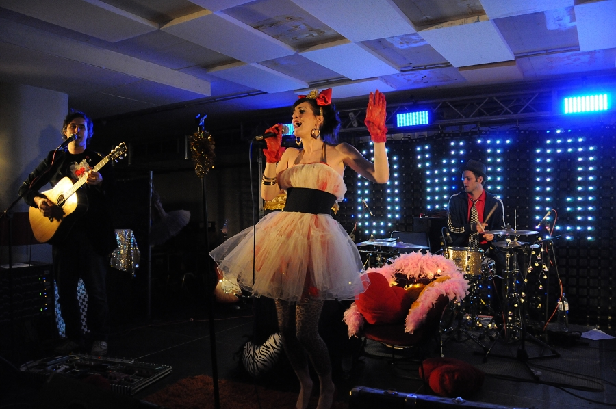 Czech band Toxique on Febiofest Music Festival 2009